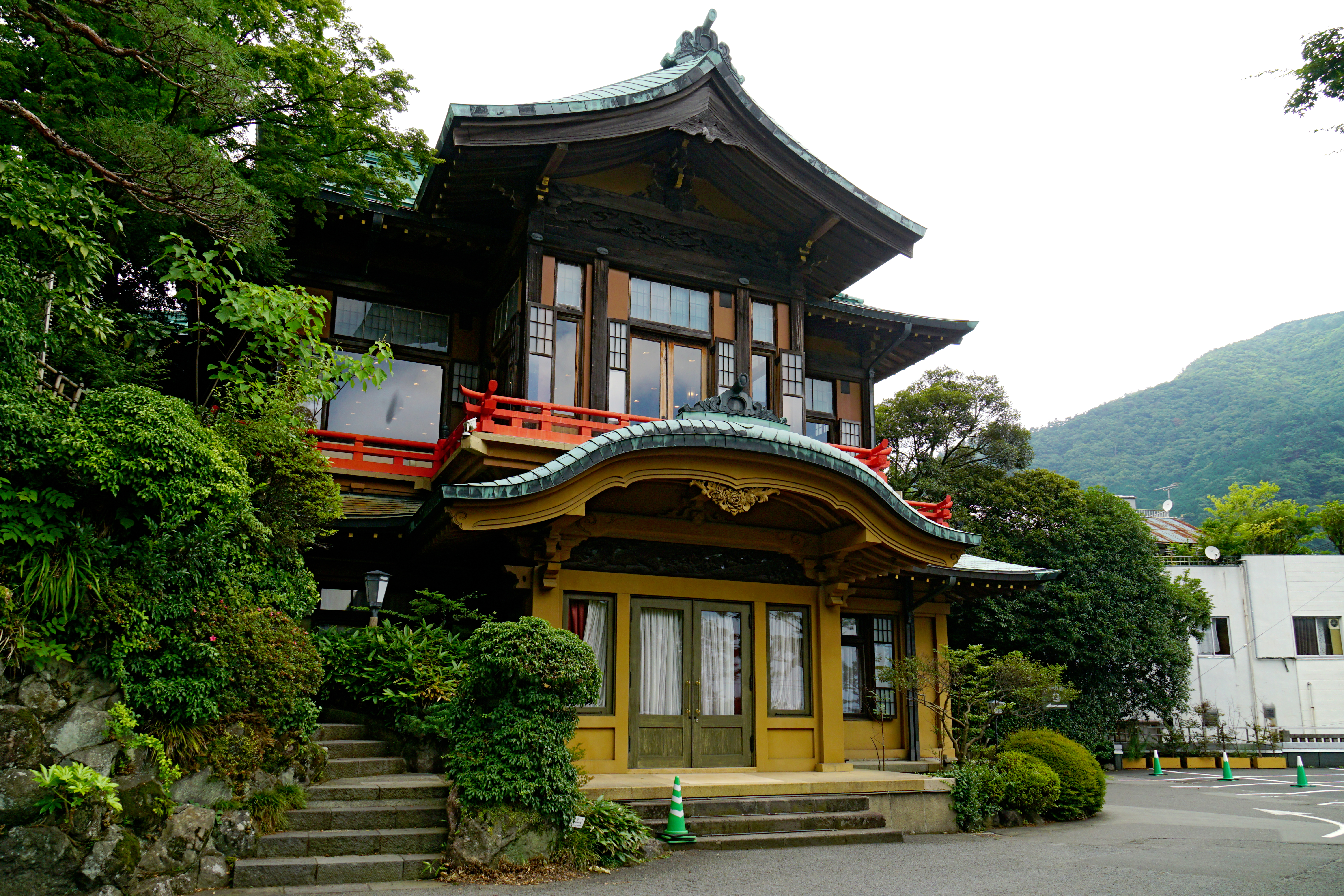 Fujiya Hotel in Hankone, Kanagawa prefecture, Japan